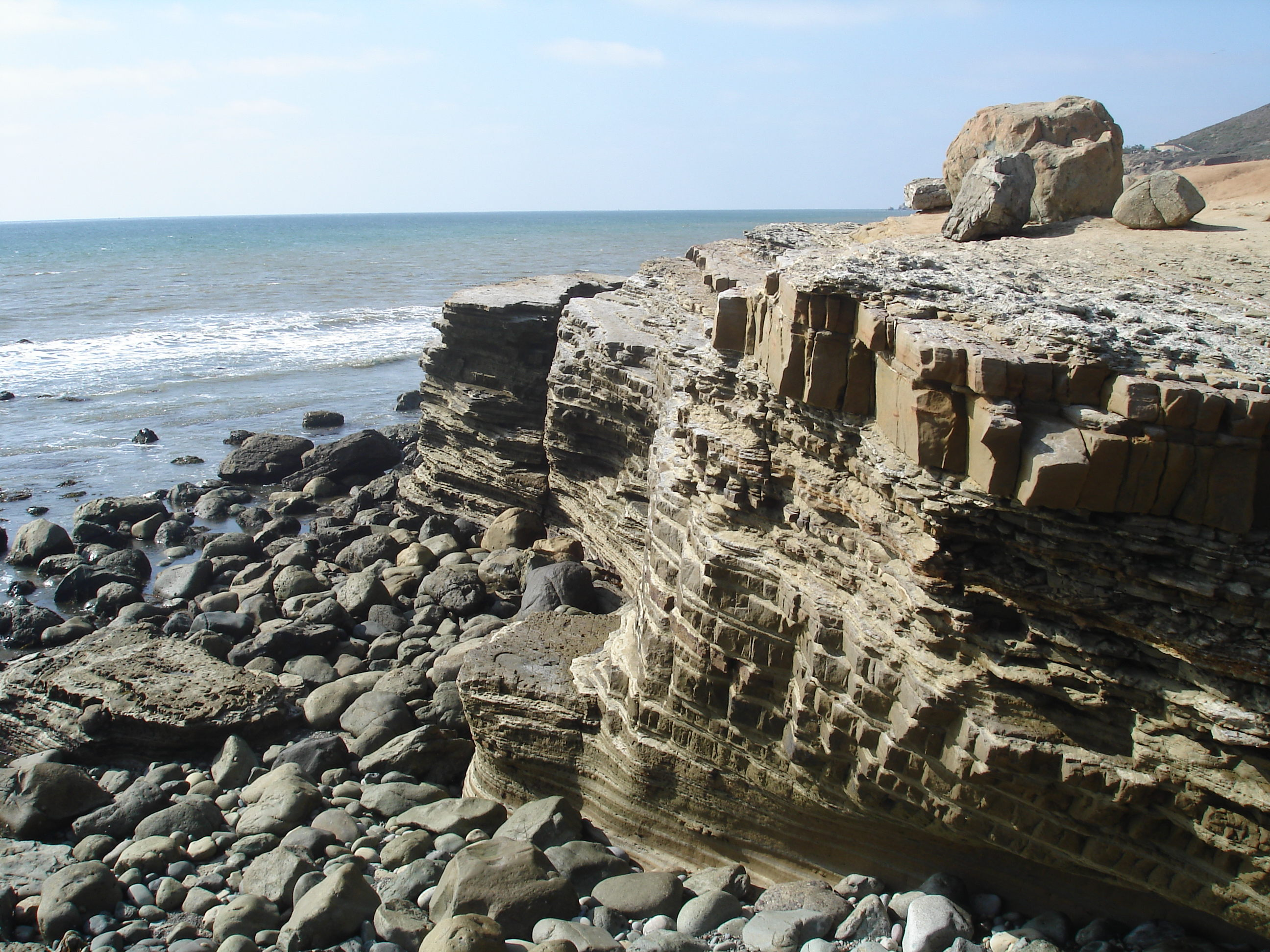 Upper Cretaceous turbidite from the Point Loma Formation, at Cabrillo Park, San Diego, California. These sedimentary rocks are interbedded finegrained dusky-yellow sandstone and gray clay shale that occur in graded beds.